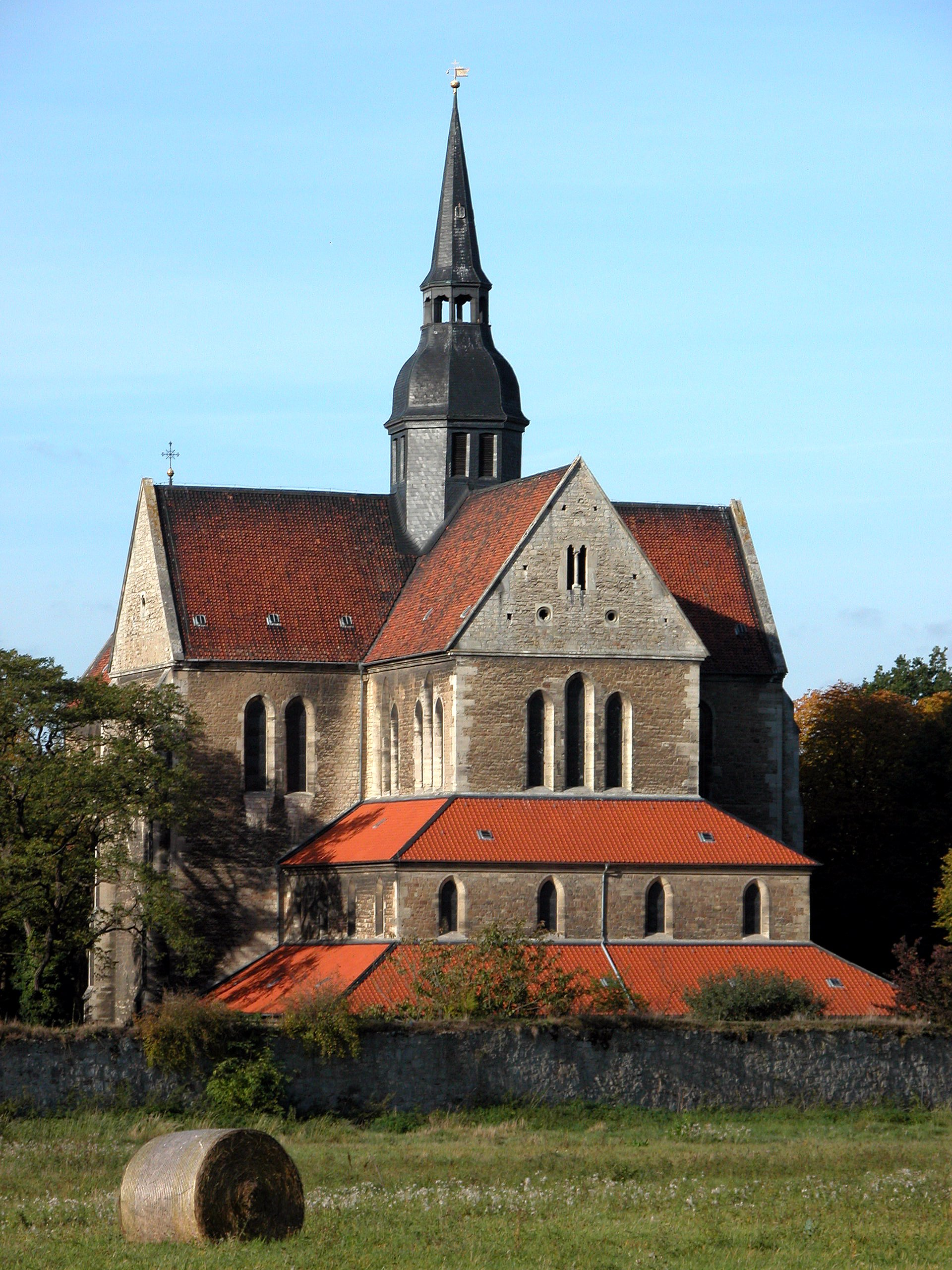 Braunschweig, Germany: Riddagshausen monastery church (as seen from the east).